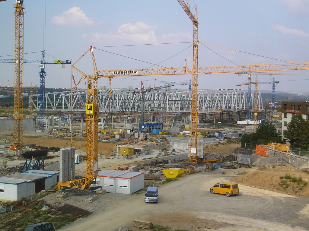 Construction site of the State Trade Fair Baden-Württemberg: Parking building over the A8 motorway.